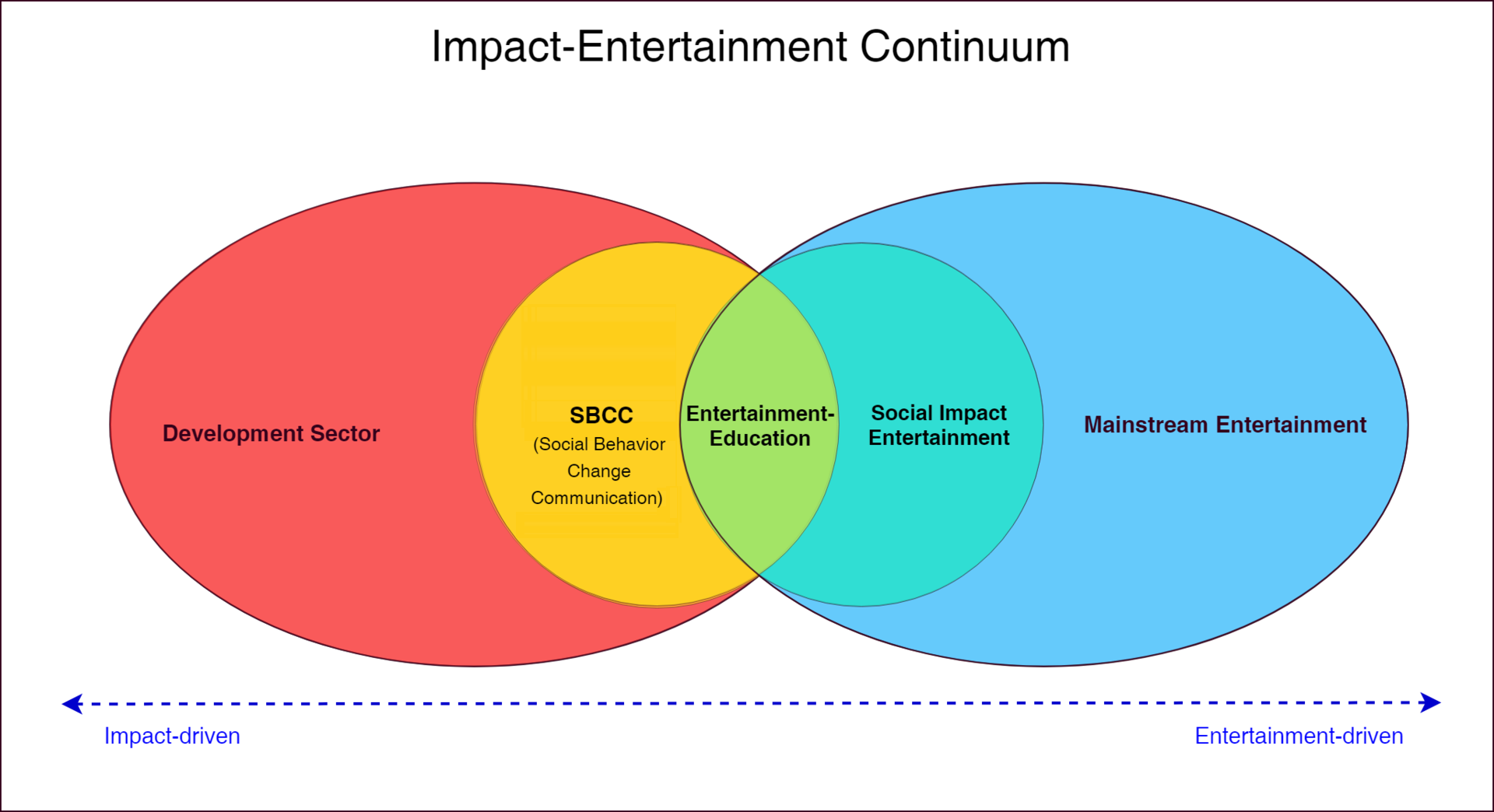 The continuum and overlaps between the world of development and entertainment; multiple sectors lie in between, such as SBCC (Social and Behavior Change Communications), C4D (Communication for Development), Entertainment-Education and Social Impact Entertainment. This graphic was created during the SBCC Summit in Bali in 2018 by Tobias Deml (a film producer from Prodigium Pictures) and endorsed by the thought leaders of the field, including key personnel of Johns Hopkins University Center for Communication Programs, PCI Media Impact, Population Media Center as well as employees of UNICEF.